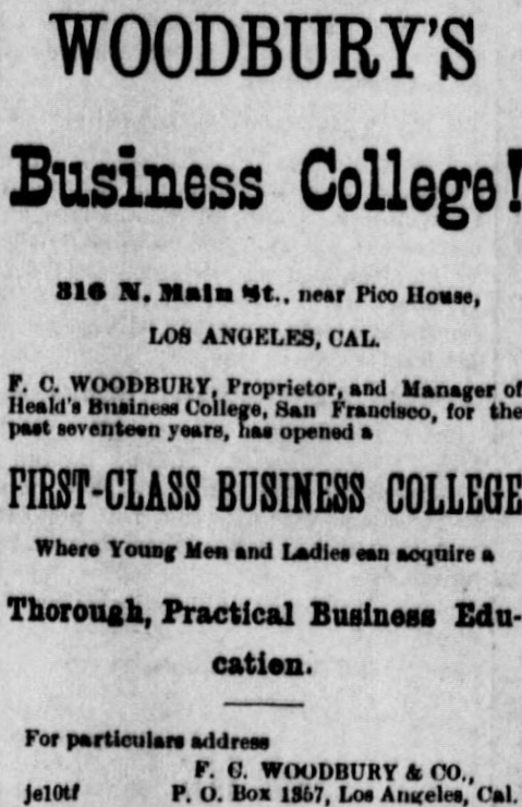 Advertisement for Woodbury's Business College, Los Angeles, California, as published in the Los Angeles Herald of September 28, 1884 Other information Published in Los Angeles Herald, September 28, 1884, page 2.